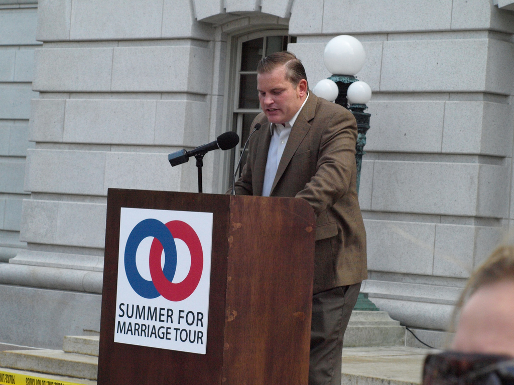 National Organization for Marriage Executive Director Brian S. Brown at Madison rally. Summer for marriage tour